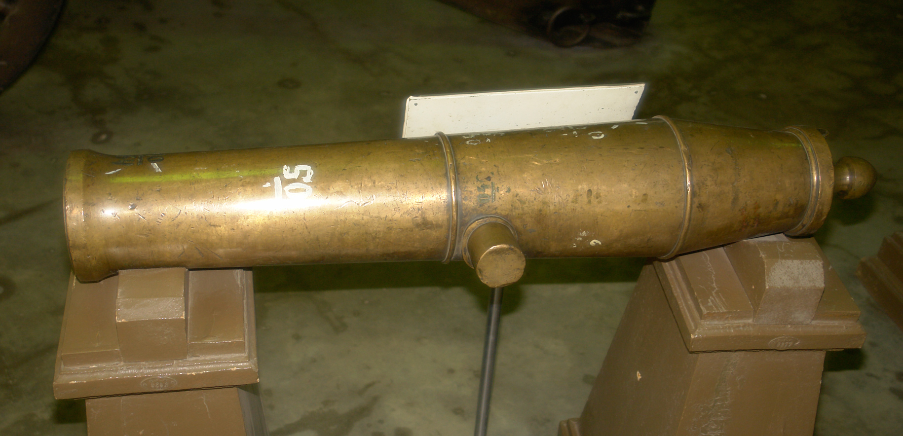 3 Pound Bronze Canon (78 mm), length 96 cm, weight 87.6 kg, cast in the years 1808-1812. Unicum for tests for weight reduction. Military-Historical Museum of Artillery, St. Petersburg.